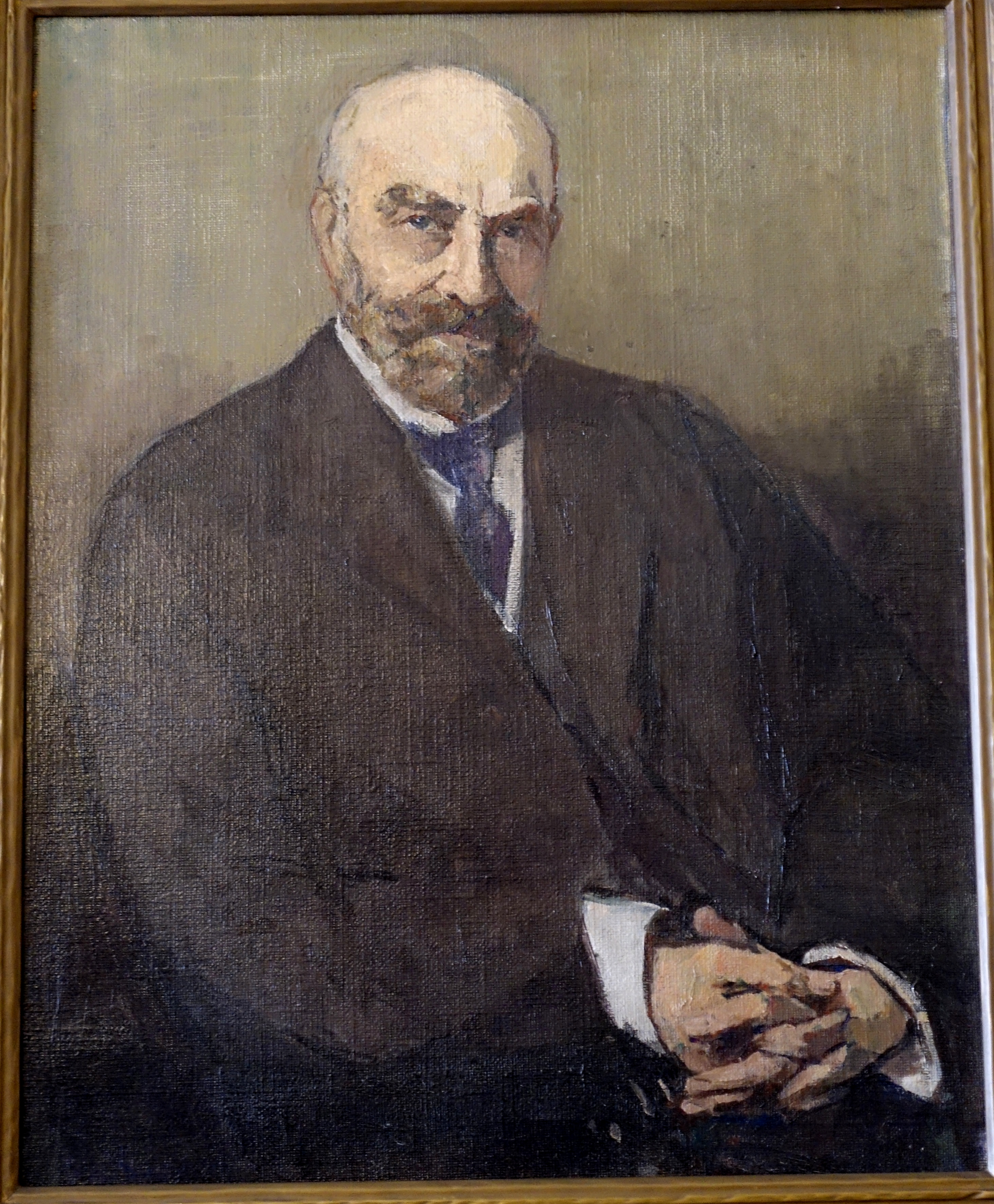 Portrait of William Haas; artist unknown. Haas-Lilienthal House - 2007 Franklin Street, San Francisco, California, USA. Photography was permitted without restriction. This artwork is in the public domain because the artist died more than 70 years ago.